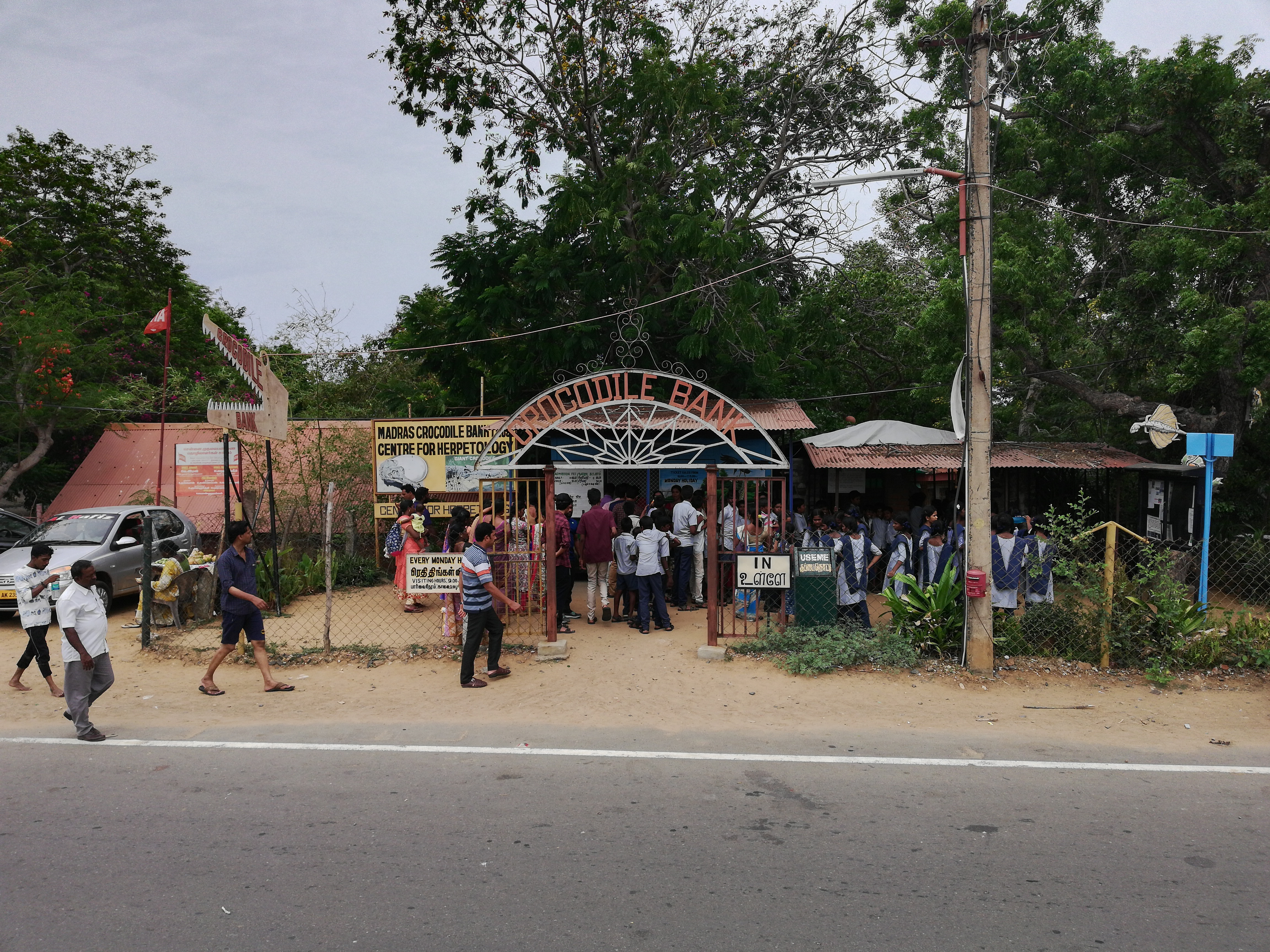 Muggers basking in the sun at CrocBank, Chennai, on 21 July 2018